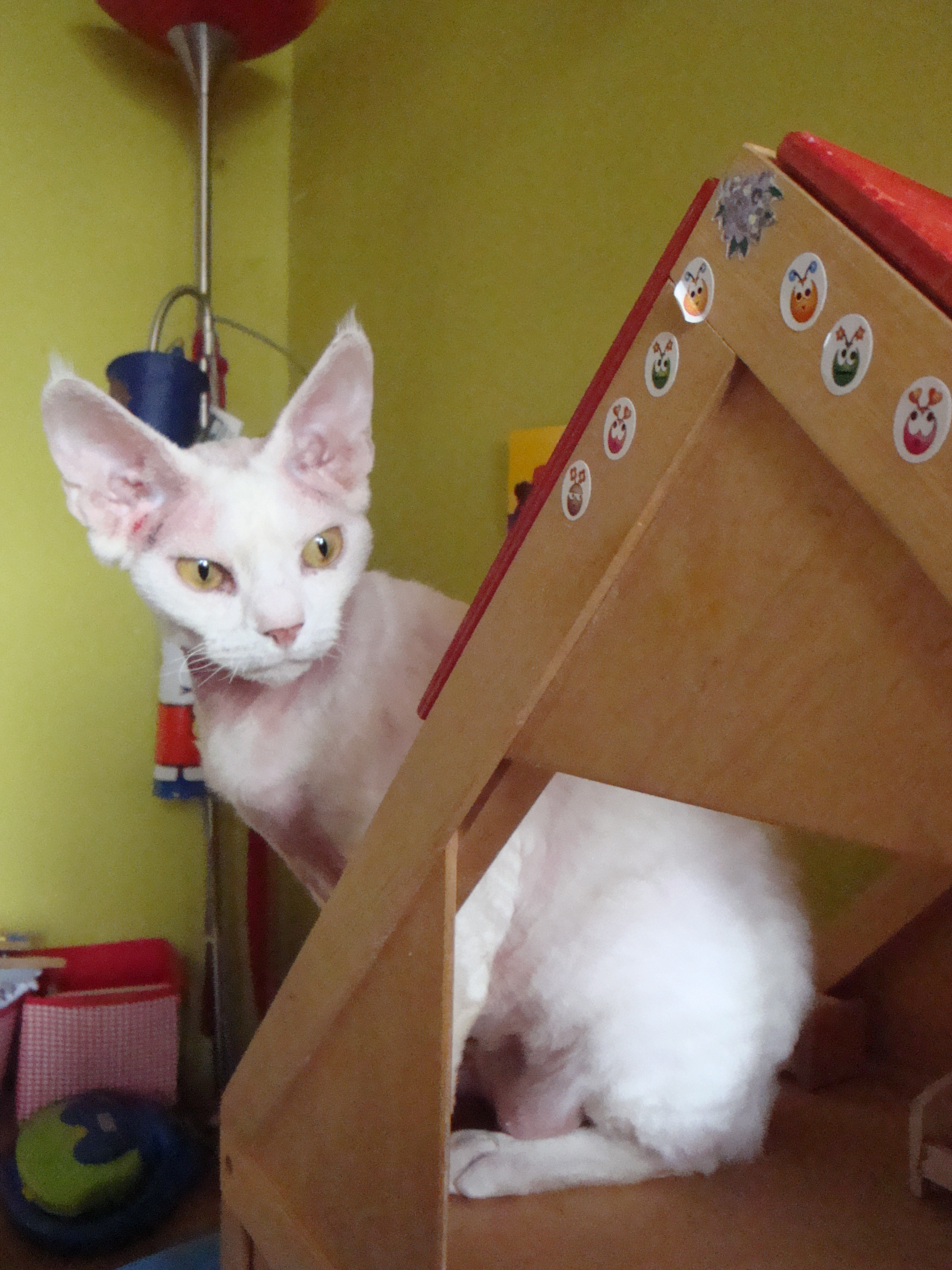 Devon Rex, male, cat, white, Vogel, in doll house